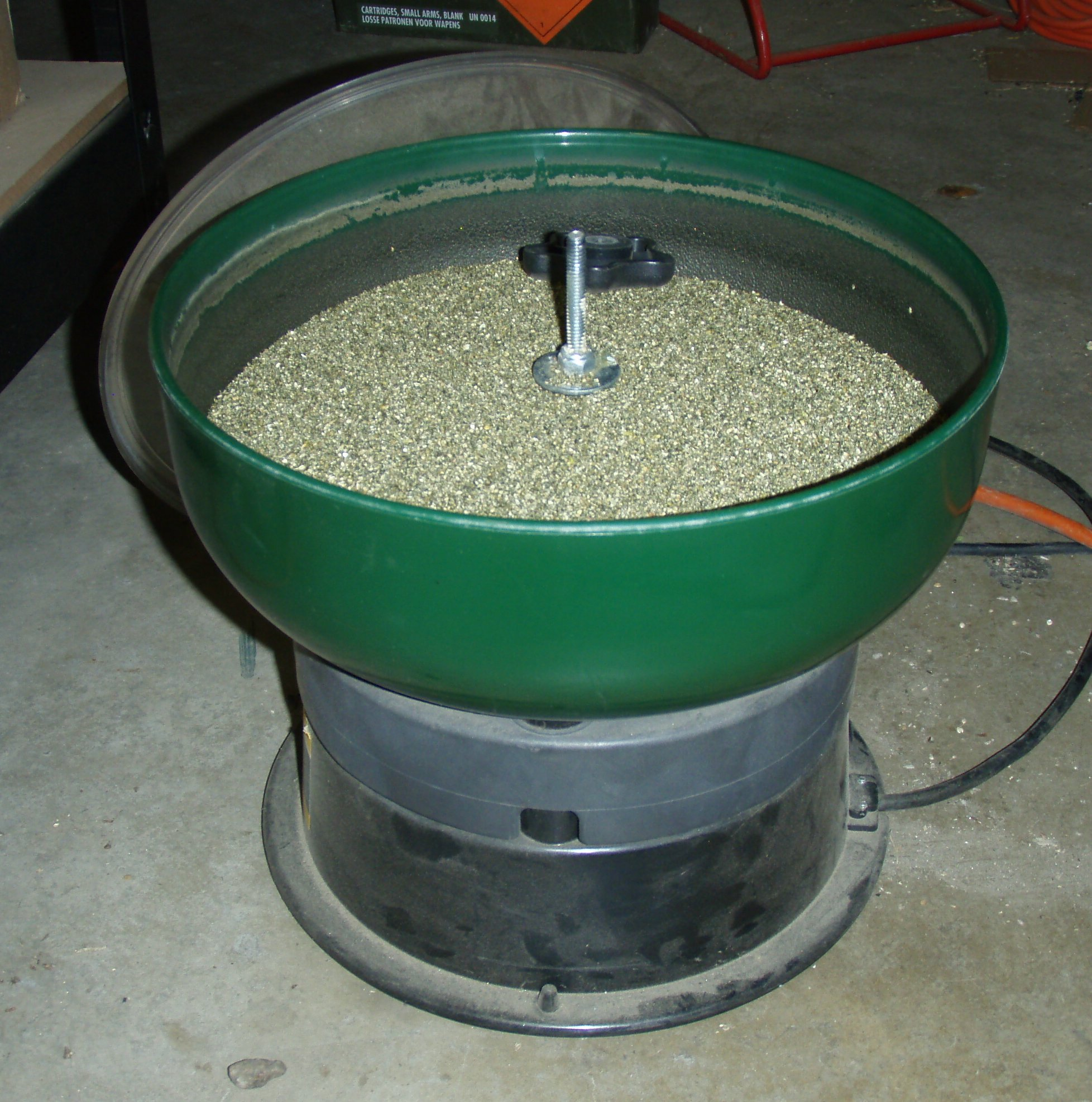 Case tumbler for cleaning ammunition for reloading